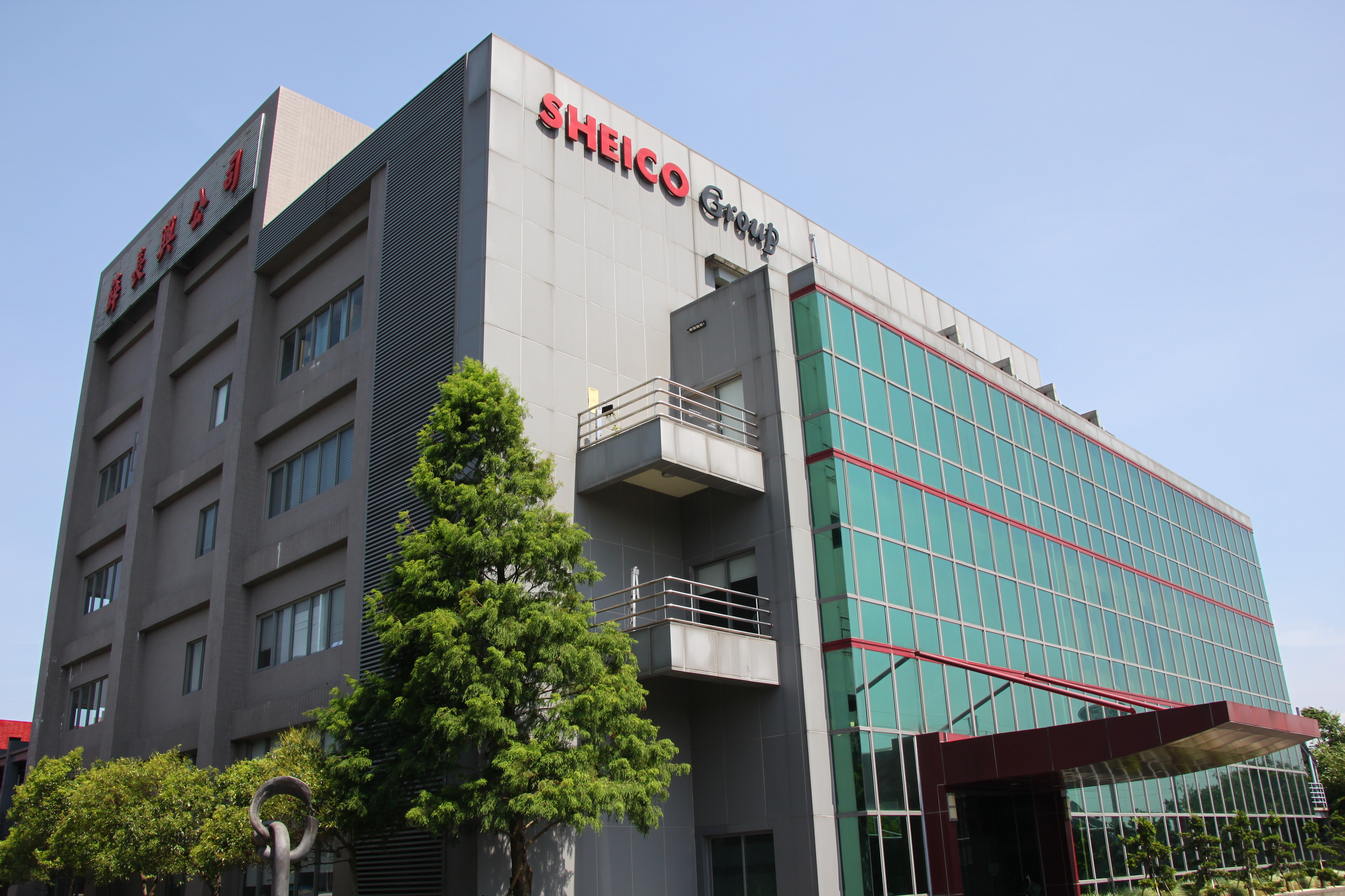 The headquarters building of SHEICO Group, located in Wujie Township, Yilan County, Taiwan.中文（台灣）: 薛長興工業總部大樓，地址：宜蘭縣五結鄉西河一路128巷27號。